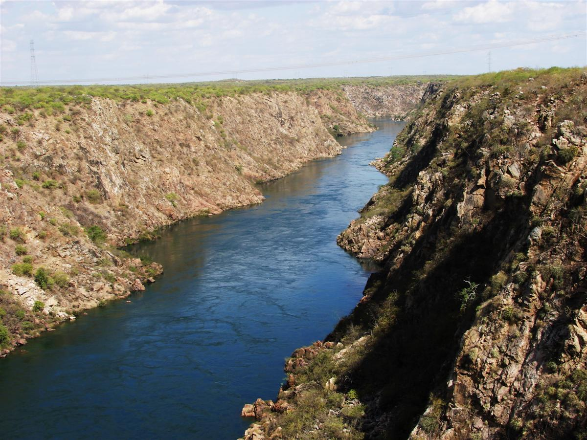 The São Francisco River south of Paulo Afonso